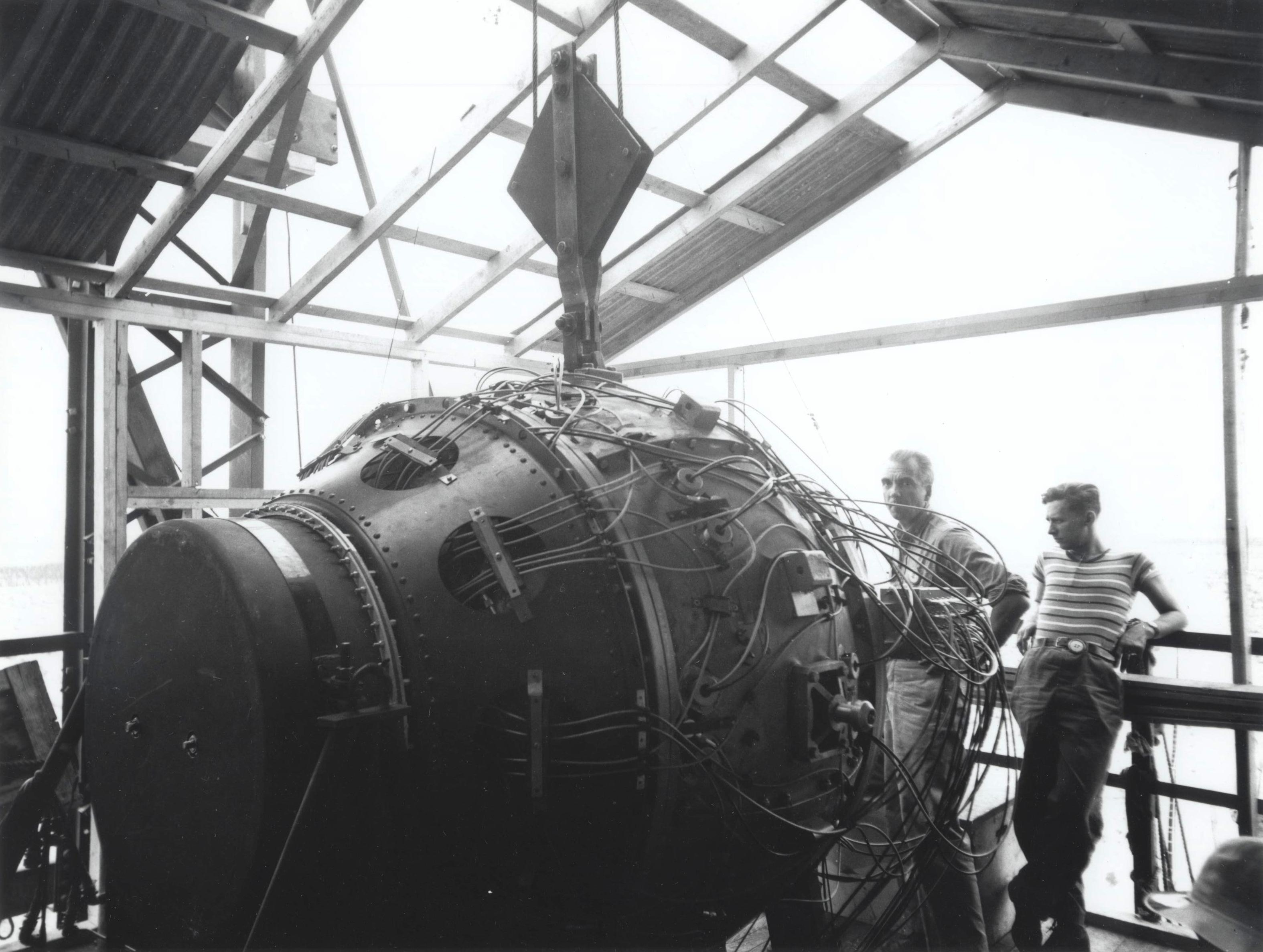 The gadget in the Trinity Test Site tower awaiting detonation. Norris Bradbury is on the left, Boyce McDaniel on the right.